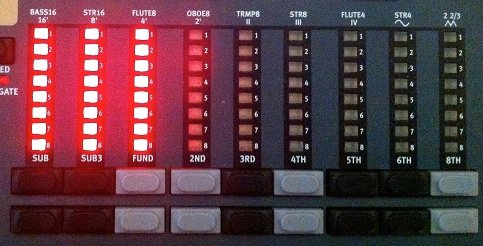 Draw buttons on a Nord Stage 2 SW73 keyboard